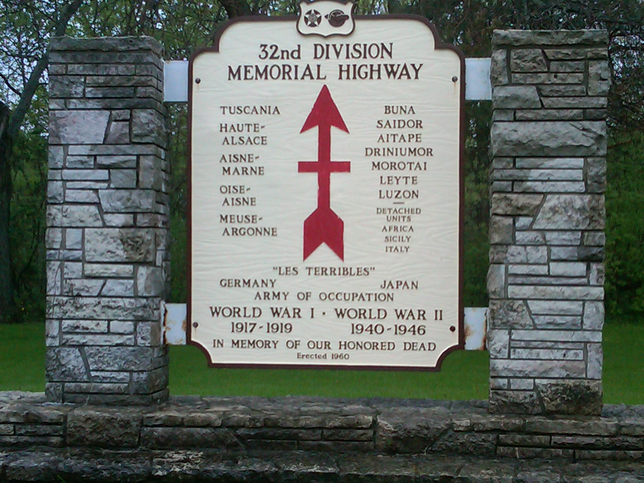 Official Wisconsin landmark of the 32nd "Red Arrow" Division on Hwy 32, Caledonia, Wis